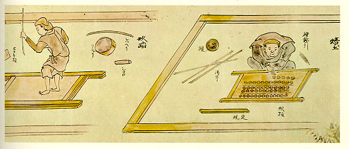 A faithful reproduction of a 1728 scroll from the Sendai Domain that the depicts the manufacture of copper cash coins in Japan. "Anciently Chinese coins were cast using clay molds, but from the early 600's the use of the sand mold method became common. Japan used the sand mold method from the very beginning of its minting history in the late 600's. The sand mold uses two frames filled with fine grain wetted sand, and a set of carefully manufactured "seed coins" or "mother coins." The man on the right is laying the mother coins on the sand in the mold. He also lays down rods to create the basic path for the molten metal to flow into the space of each coin. After the mother coins are laid out, the second frame filled with sand is laid on top. The man on the left is walking on the paired frames to make sure that the sand presses tightly to the mother coins, so as to produce a fine image." - Dr. Luke Roberts.